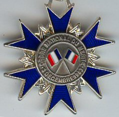 Reverse of the Knight's insignia of the National Order of merit